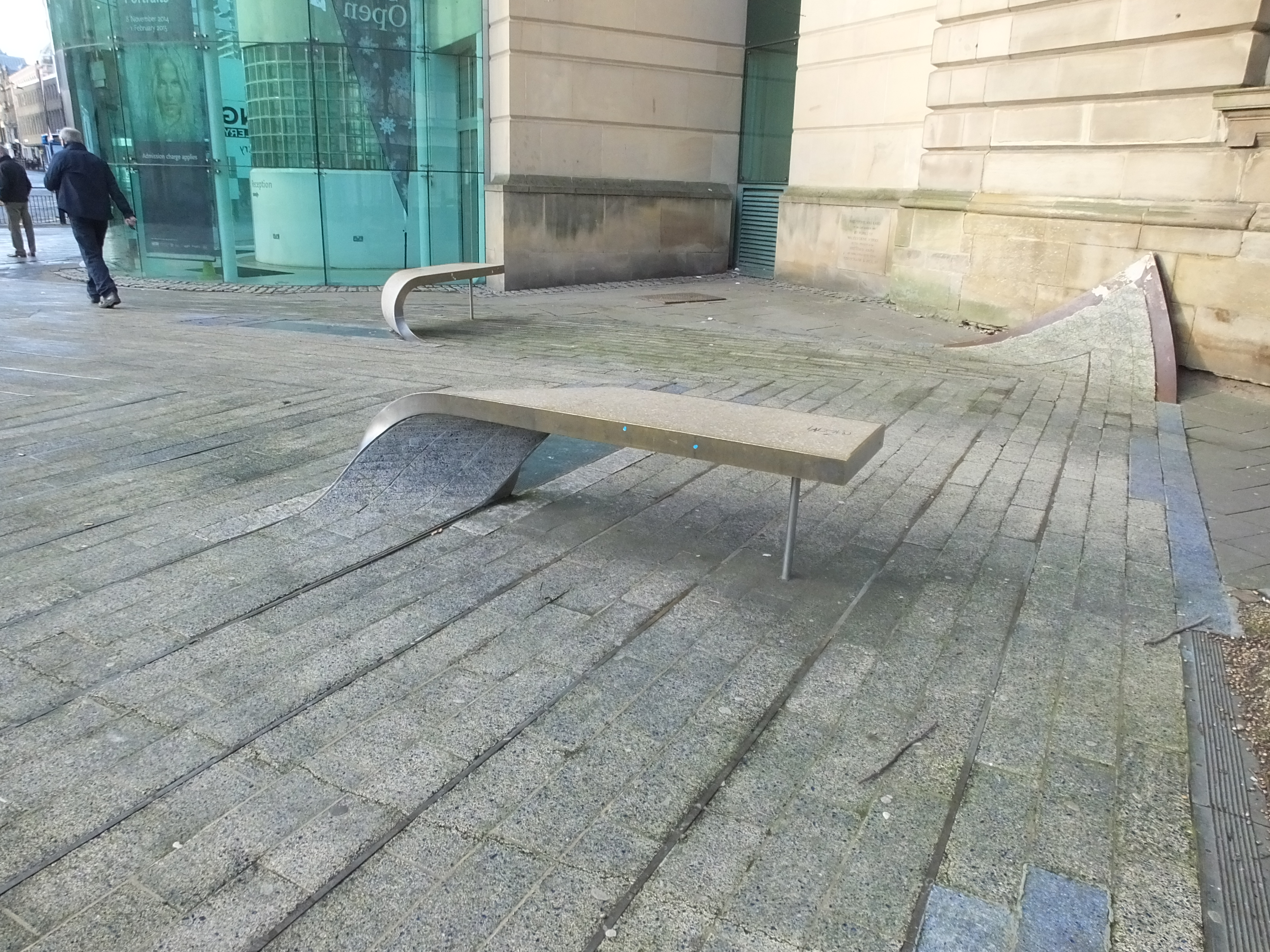 Blue Carpet outside the Laing Art Gallery, in Blue Carpet Square, Newcastle